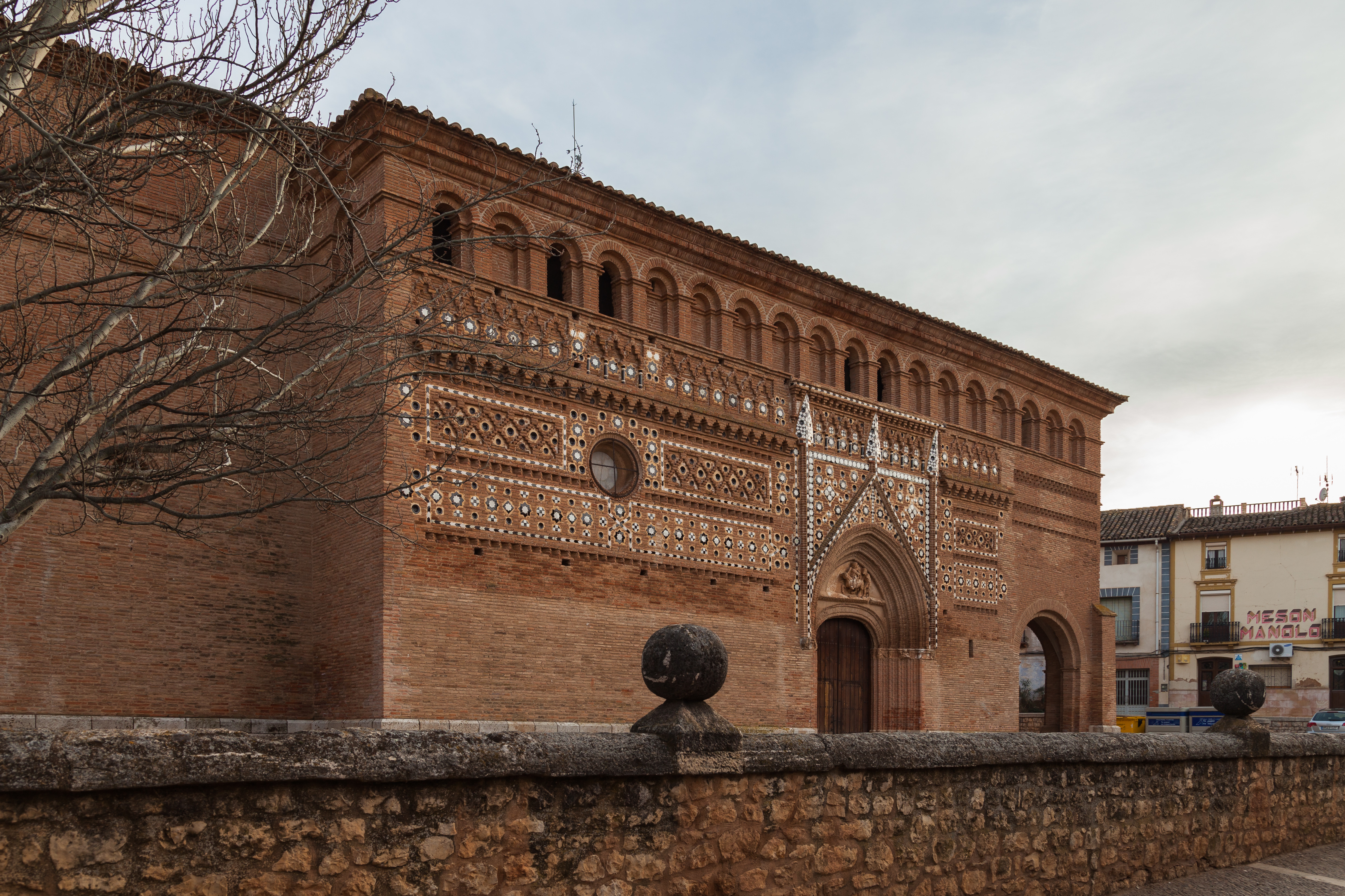 St Martin of Tours church, Morata de Jiloca, Zaragoza, Spain